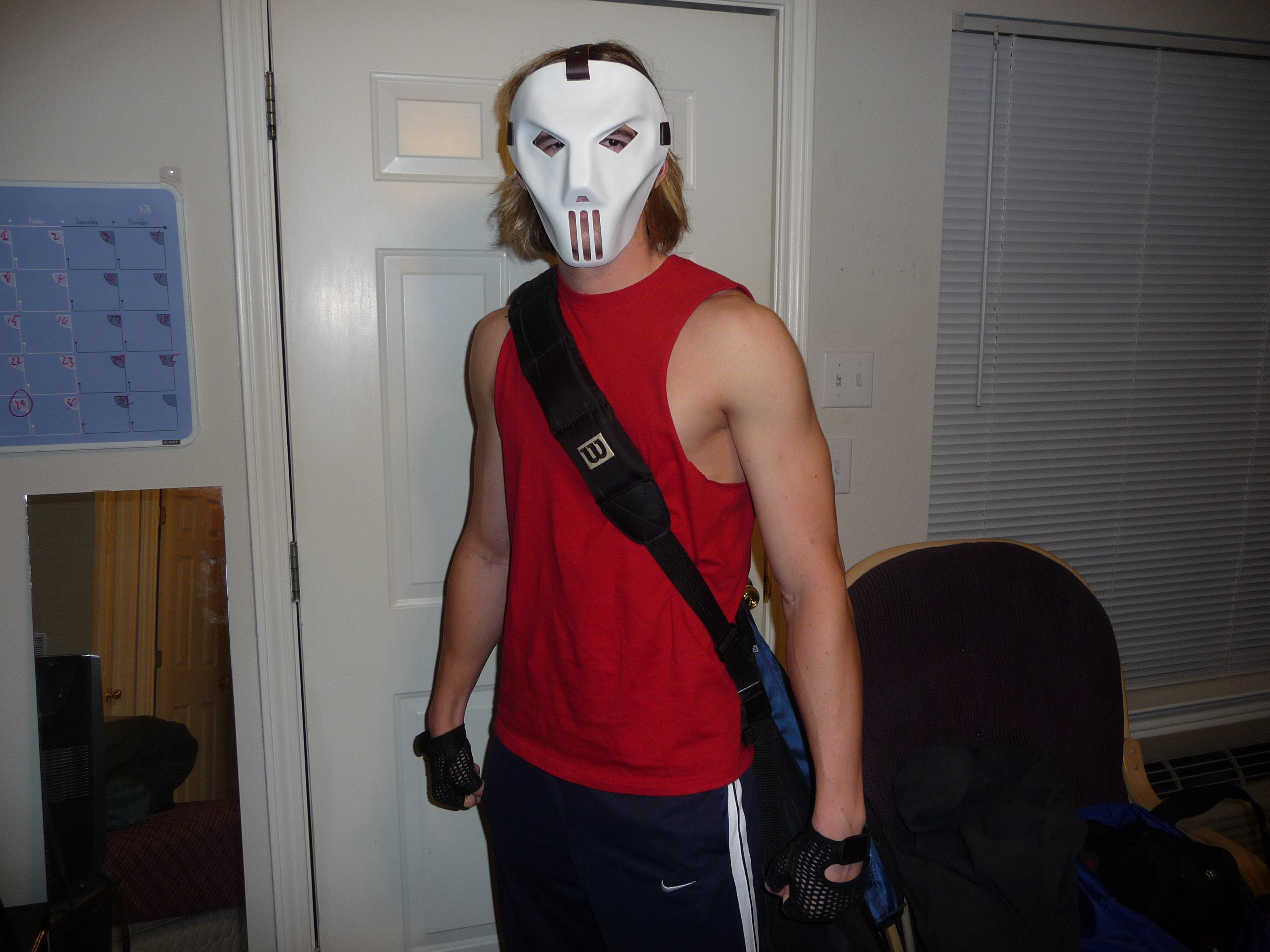 Last known photo of Casey Jones. It is said that the photo was taken by a hooker moments before April O'Neil walked in on Casey Jones using his hockey stick....take that how you will.